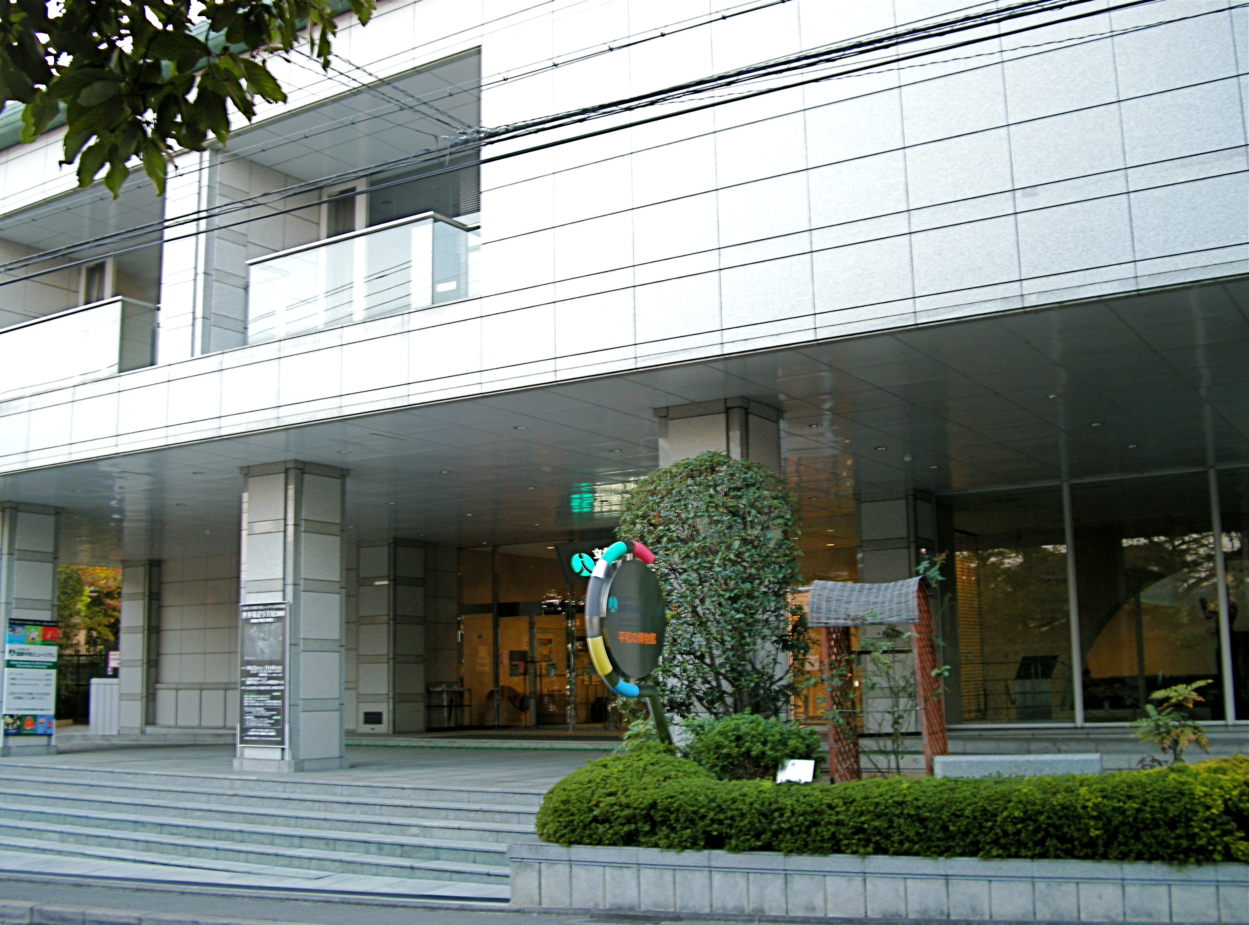 Entrance of the Kyoto Museum for World Peace (Kinugasa Campus, Ritsumeikan University, Kyoto, Japan)